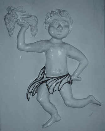 Bacchus, Kleiner Putto aus Gips, eigene stuckarbeit